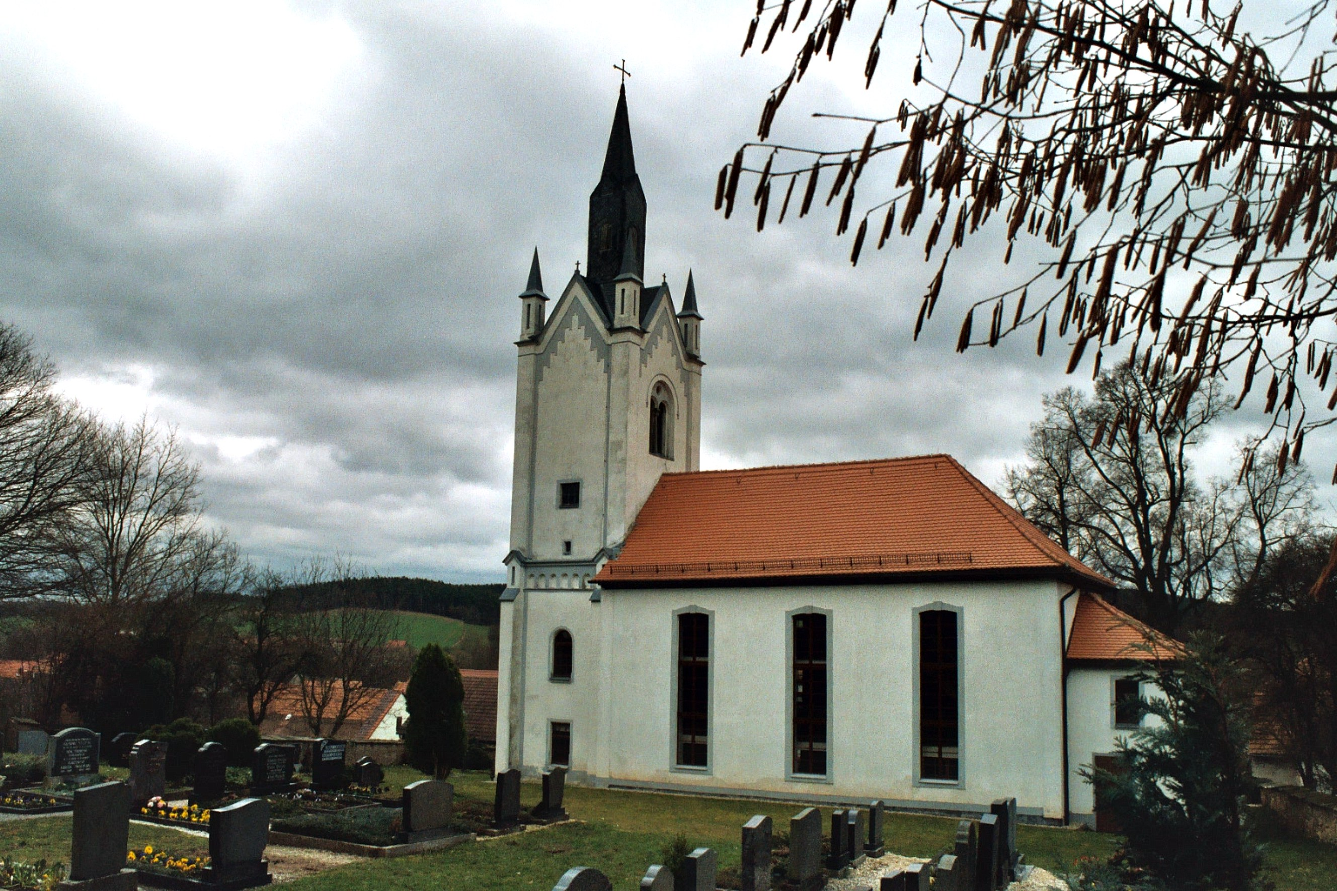 Groß-Saara (Saara bei Gera), the village church and the churchyard